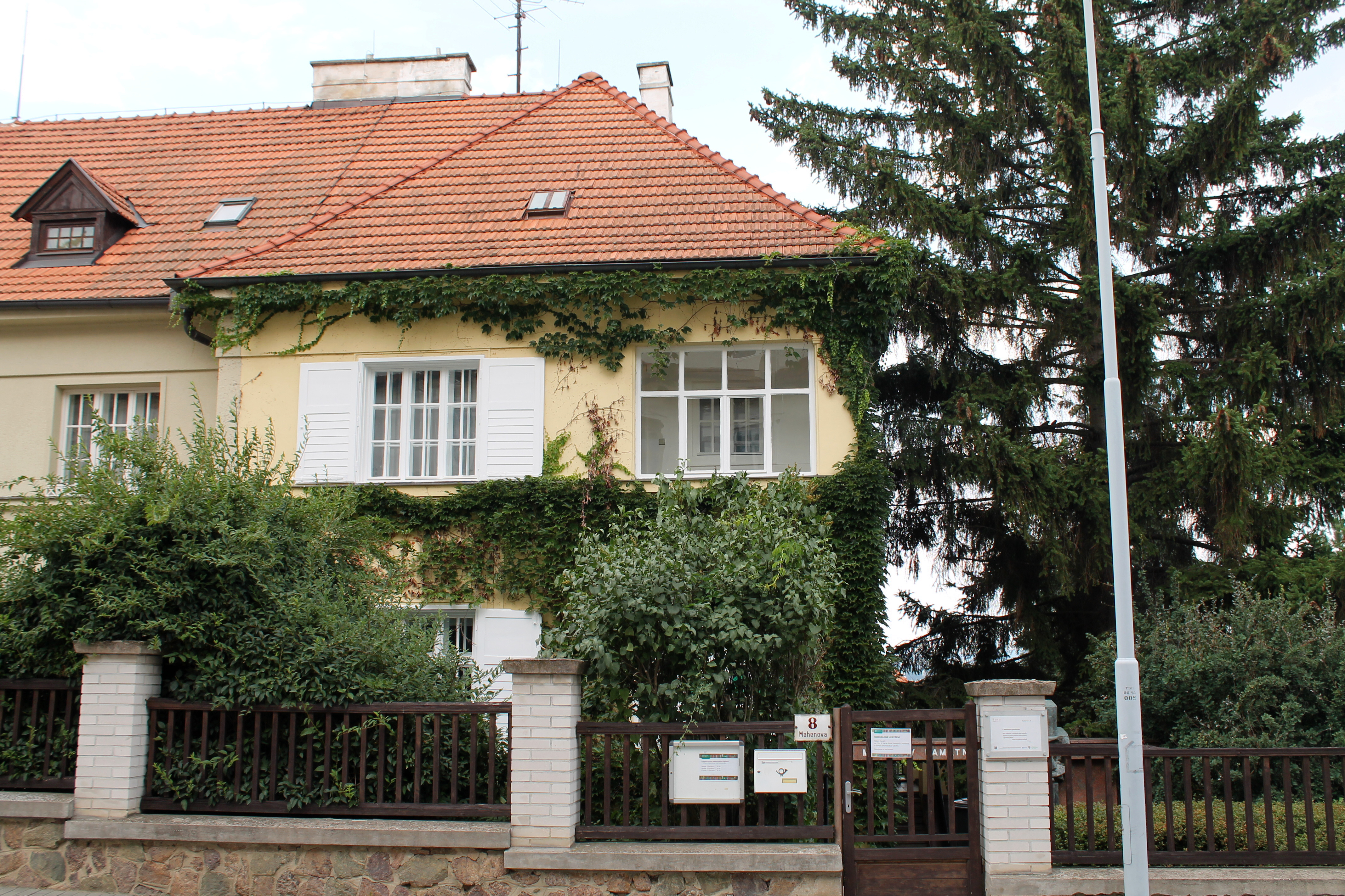 Jiří Mahen Museum and Library - Mahenova 357/8, Stránice, Brno, Czech Republic